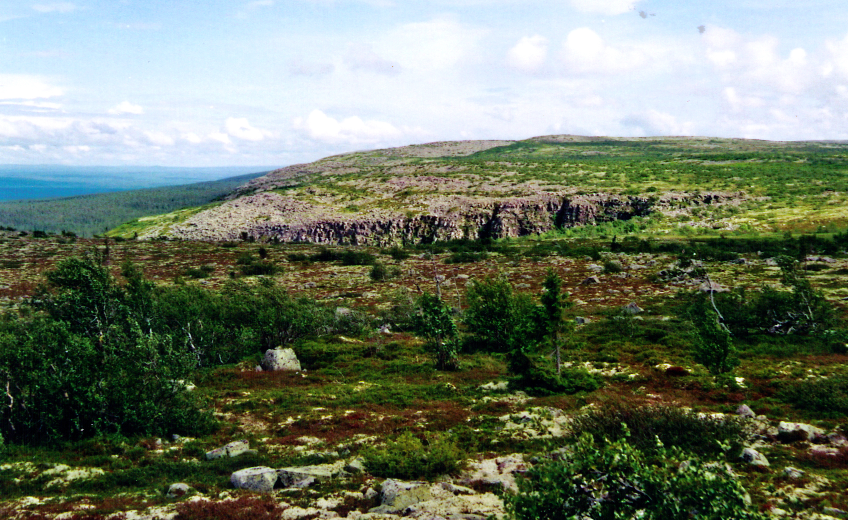 Fulufjället in Sweden